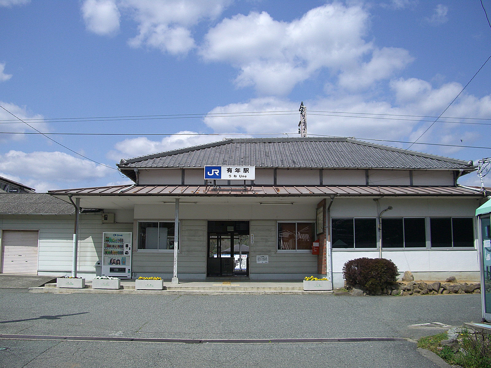 West Japan Railway Sanyo Main Line Une Station Building 西日本旅客鉄道 山陽本線 有年駅 駅舎